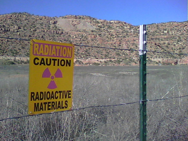 Caution: Radioactive Materials sign at Uravan townsite near San Miguel River, Colorado